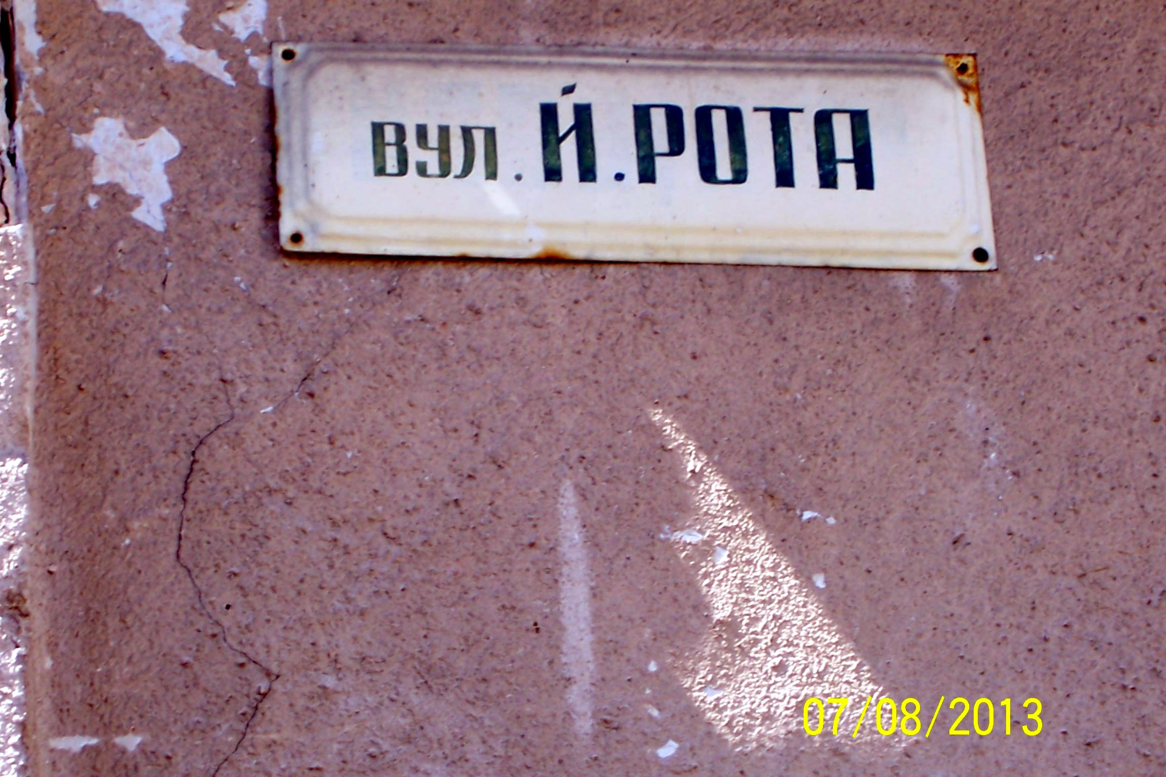 Joseph Roth Street in Brody